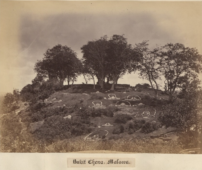 Description: Bukit Chena, Malacca. Location: Malacca, Malaya Date: 1860-1900 Our Catalogue Reference: Part of CO 1069/484. This image is part of the Colonial Office photographic collection held at The National Archives. Feel free to share it within the spirit of the Commons. Please use the comments section below the pictures to share any information you have about the people, places or events shown. We have attempted to provide place information for the images automatically but our software may not have found the correct location. For high quality reproductions of any item from our collection please contact our image library